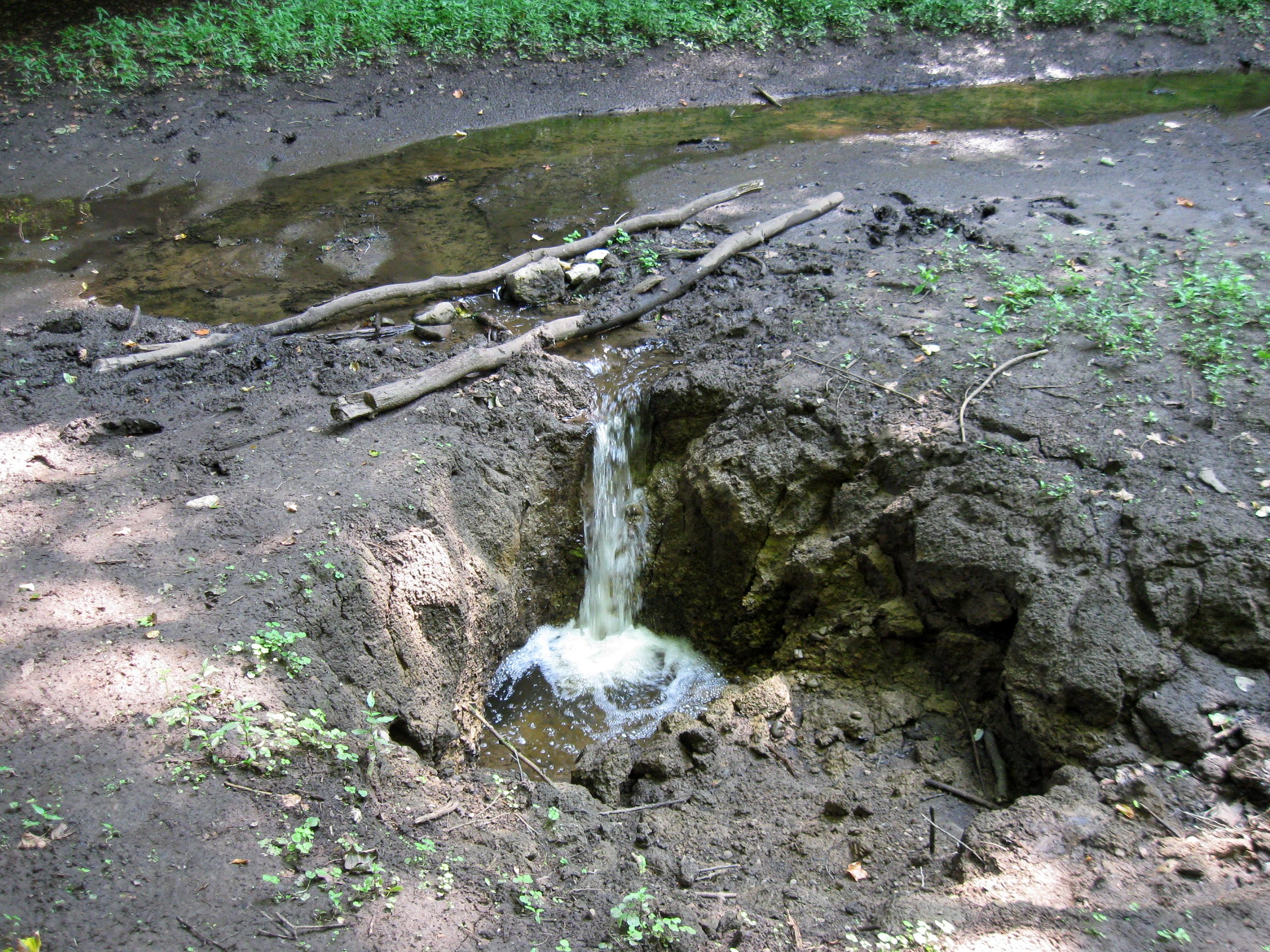 Infiltration of Gleißenbachs, about 500 meters north of the pond Deiniger